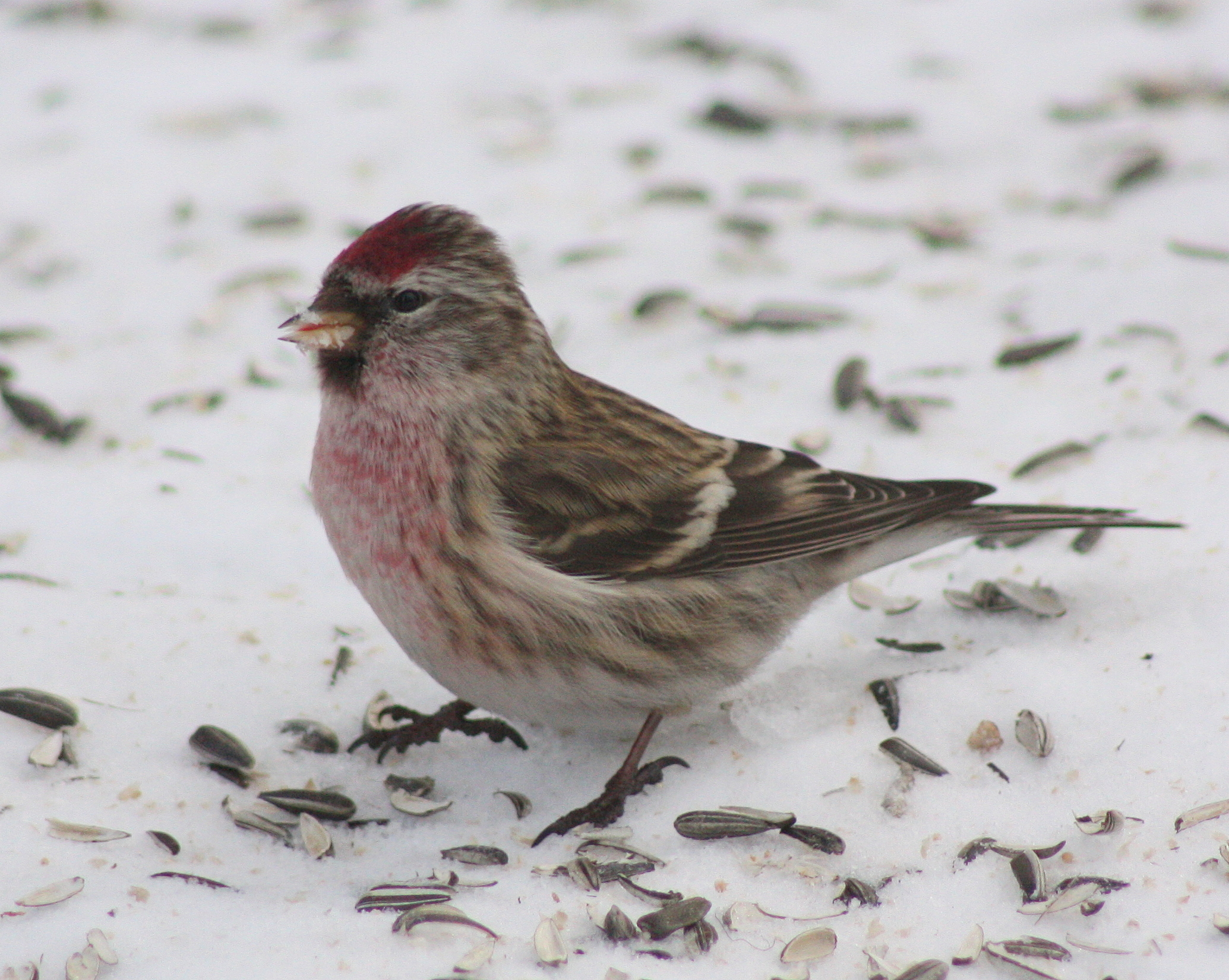 A Common Redpoll (Carduelis flammea) in Kittilä, Finland.